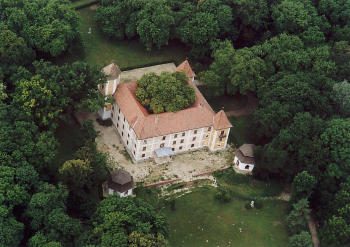 Palace - Hédervár - Hungary - Europe